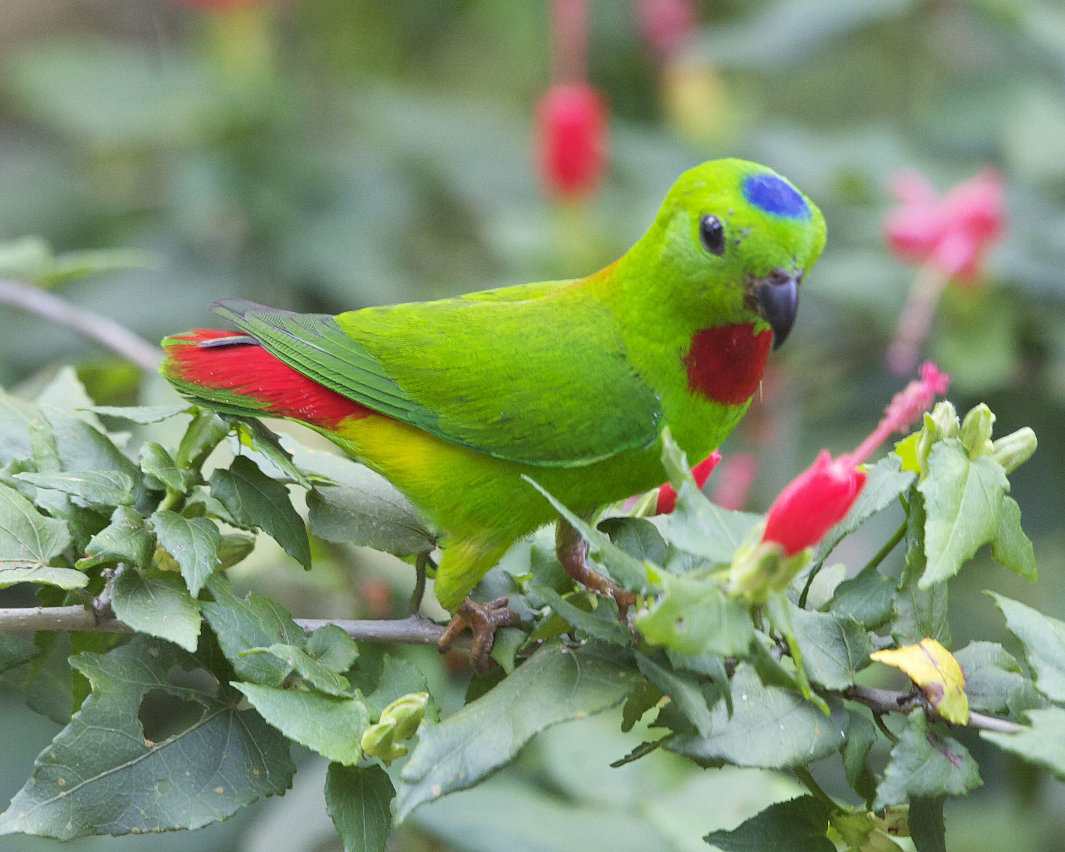 A male Blue-crowned Hanging Parrot in Tanglin Halt, Singapore.